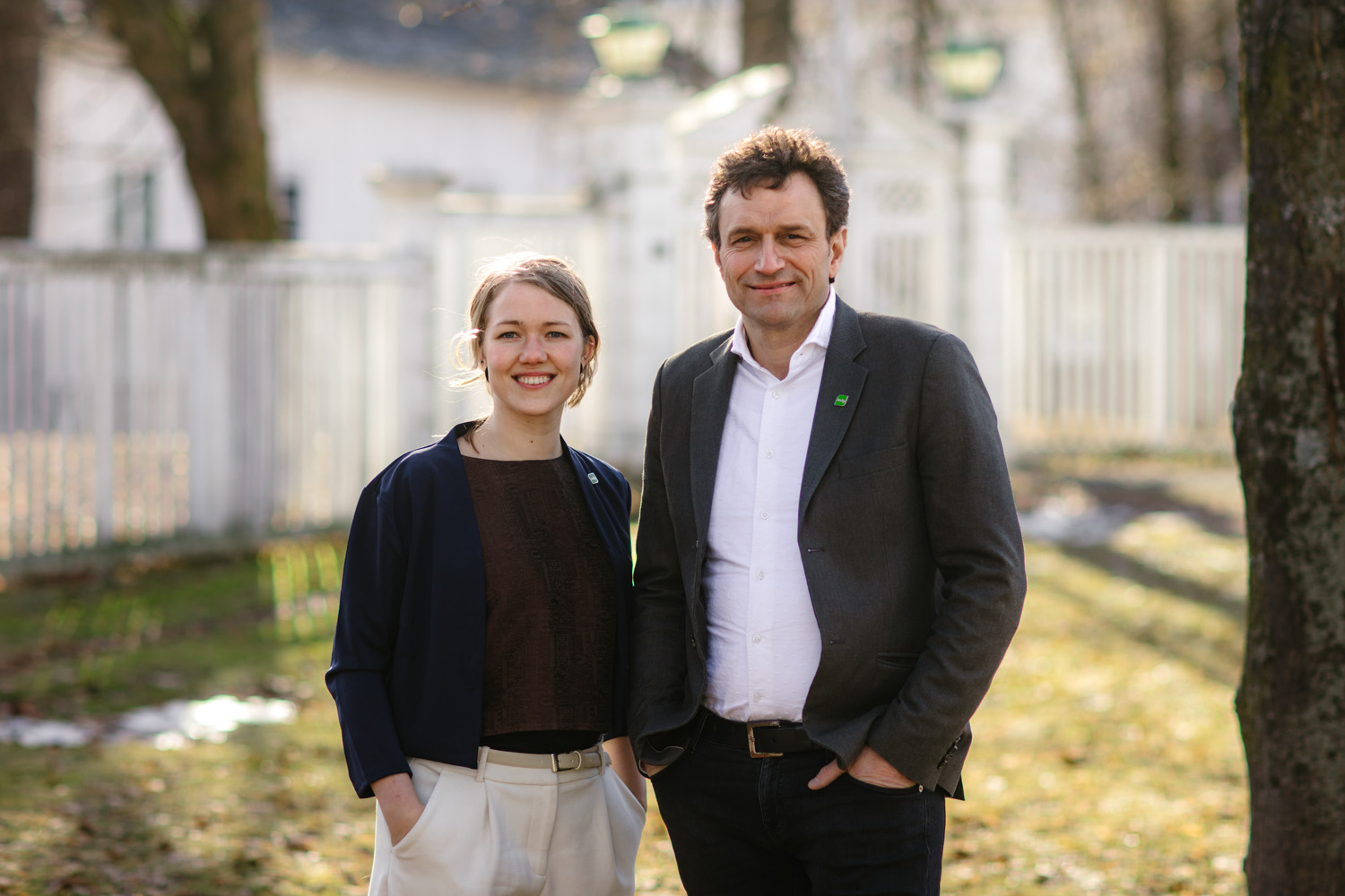 Une Aina Bastholm og Arild Hermstad, 1. kandidater for Oslo og Hordaland Foto: Thomas Ekström